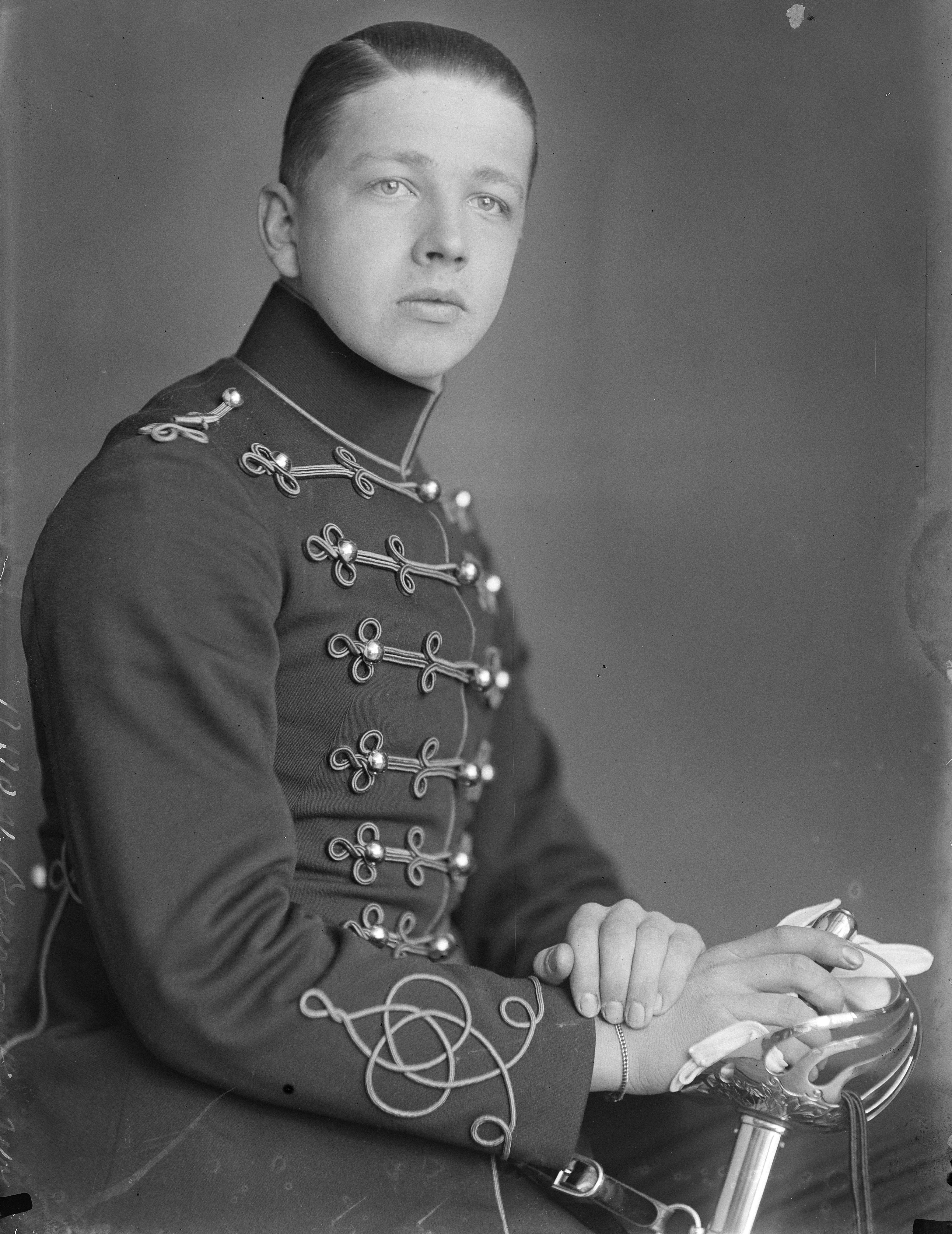 Photograph of B.F. van Bevervoorden van Oldemeule by Jacob Merkelbach (1877-1942)